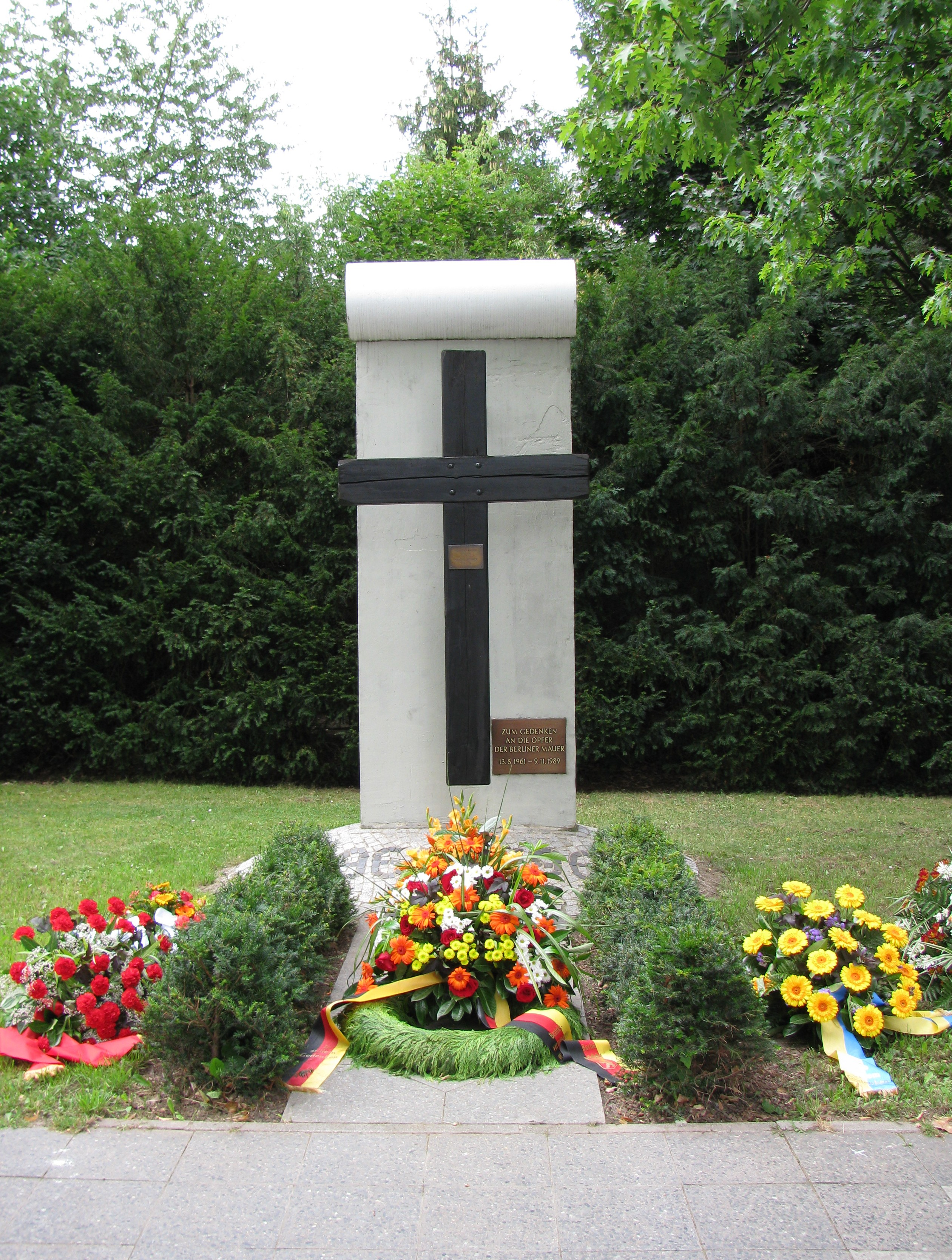 Berlin Wall Memorial, Berlin-Frohnau